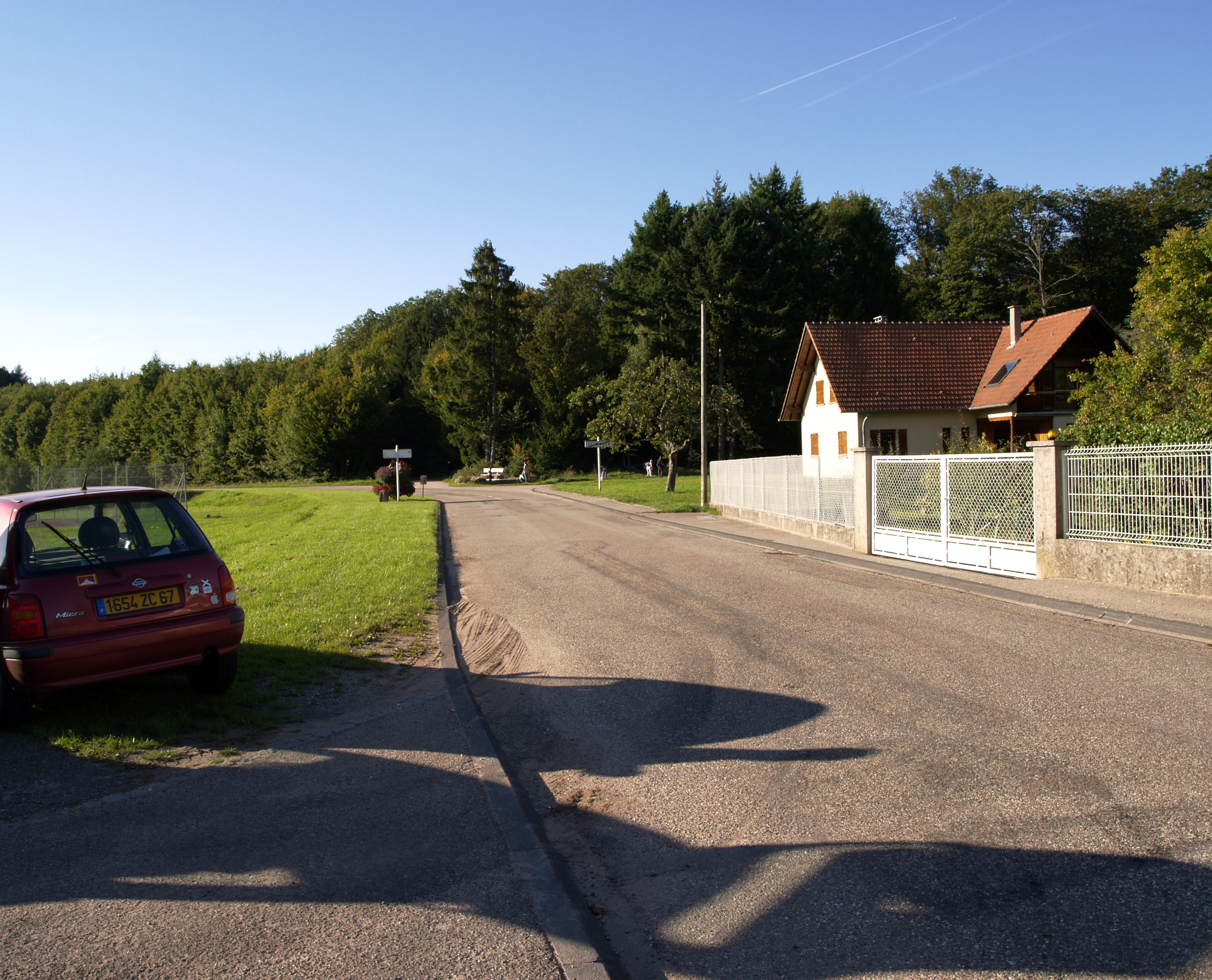 A road in Climbach (Alsace, France)